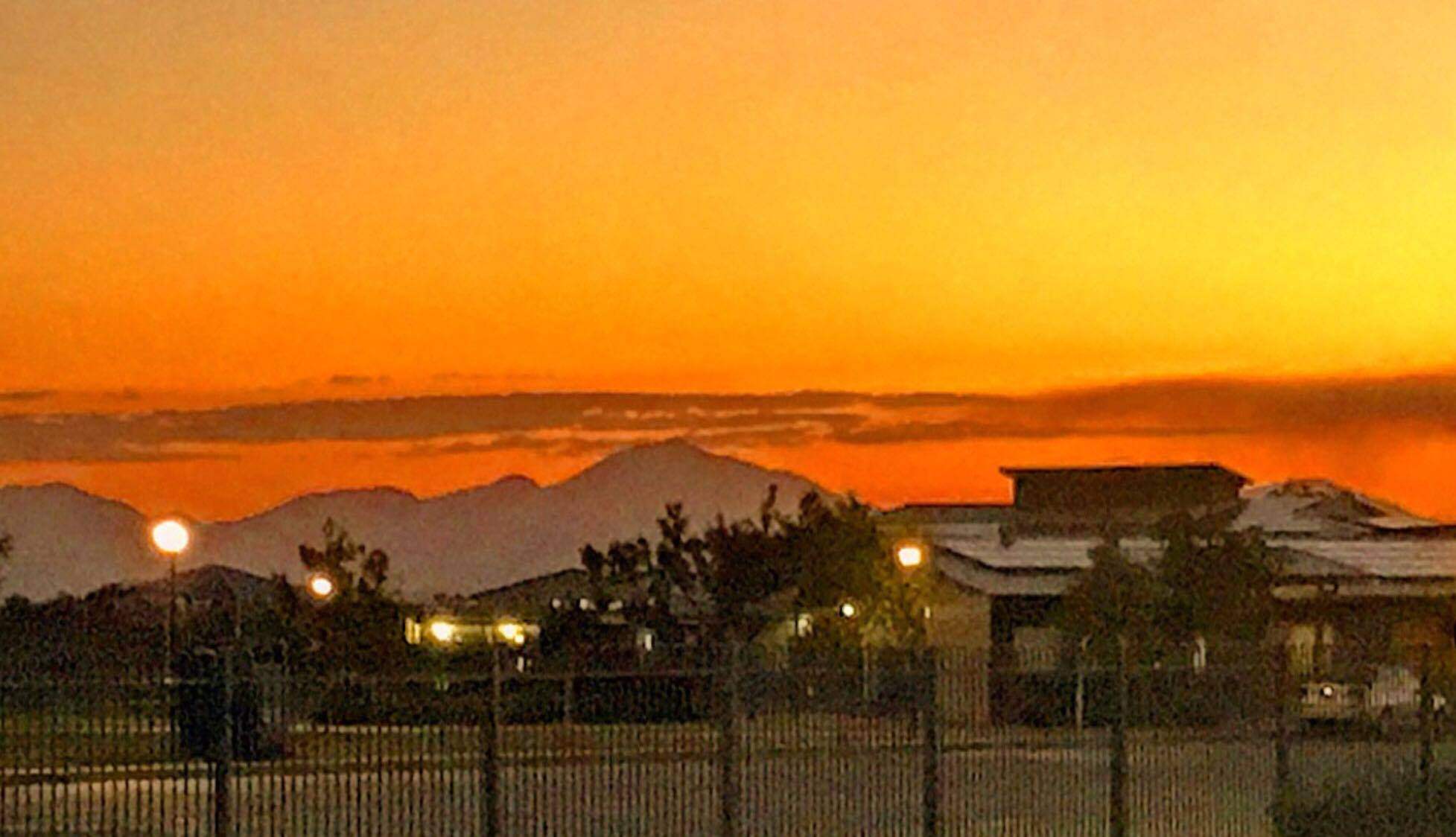 A view of the sunset in Proserpine over the Clarke Range to the west of the town, in the foreground is St Catherine's Senior Campuses.